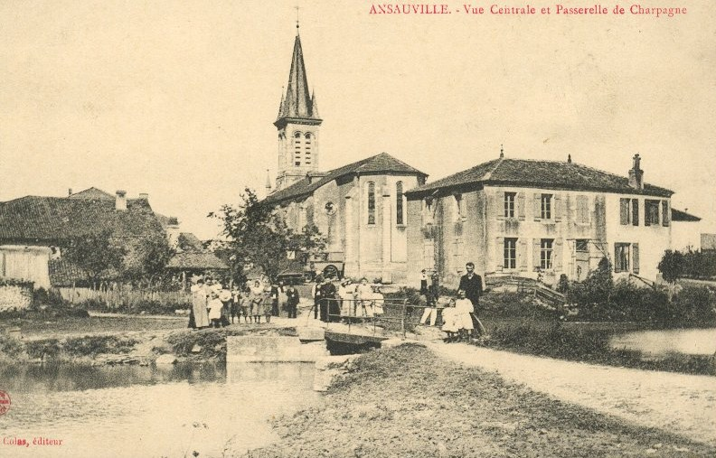 Old post card of Ansauville (Meurthe-et-Moselle ; France). Central view and footbridge of Charpagne.